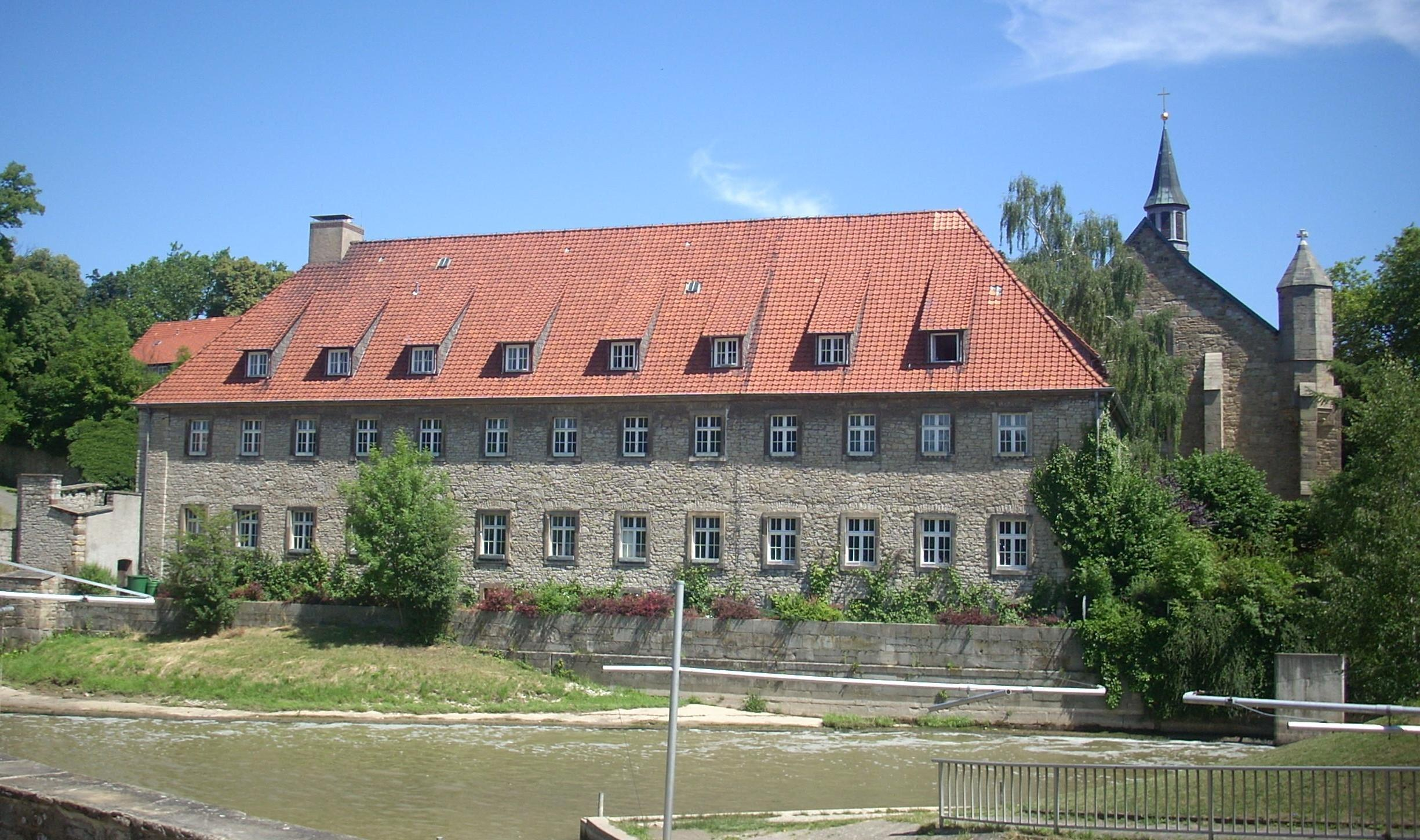 Hildesheim, Church St. Magdalenen and former monastery, view from west